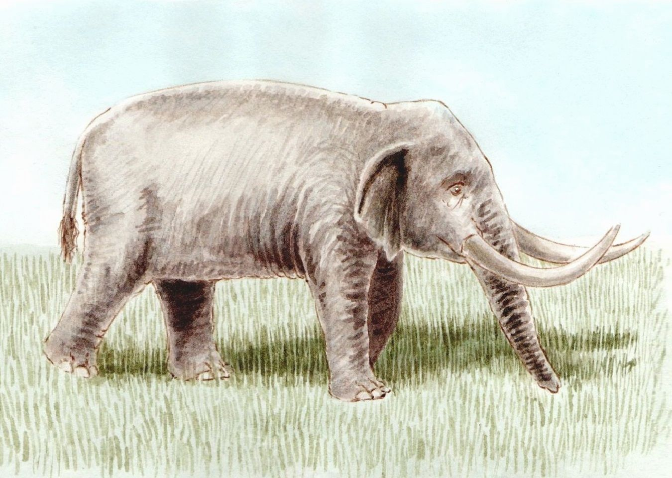 A recreation of the extinct mammal Elephas beyeri